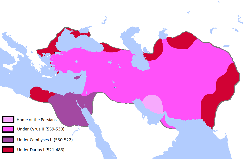 Updated the map by delineating the conquests of the three major Persian conqueror Kings, and also adding the names of the main satrapies of the empire. As a source I used this map of Ian Mladjov's Resources from the University of Michigan's History department. Link